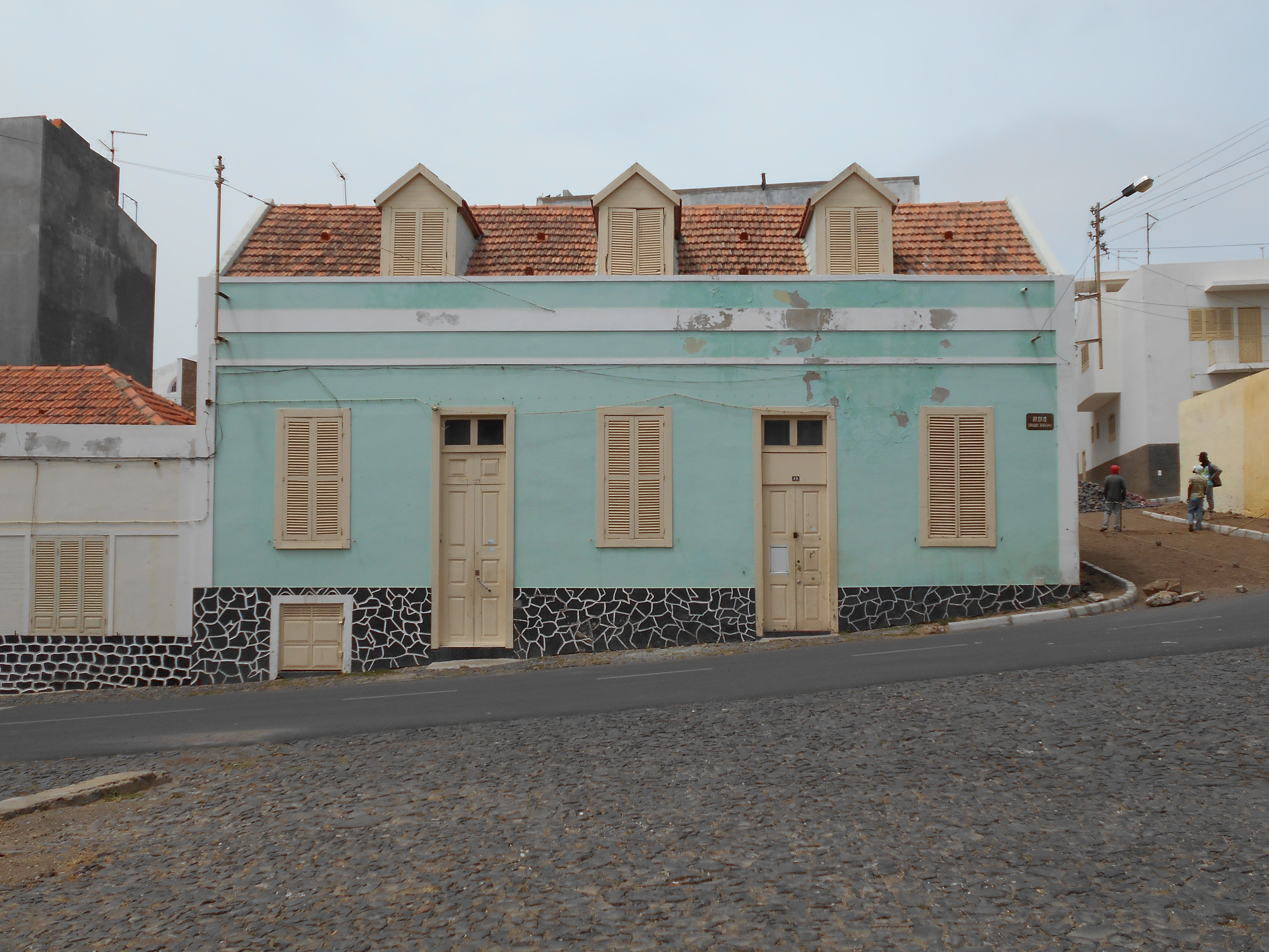 A colonial house in Mindelo, Cape Verde (location: Alto Mira)